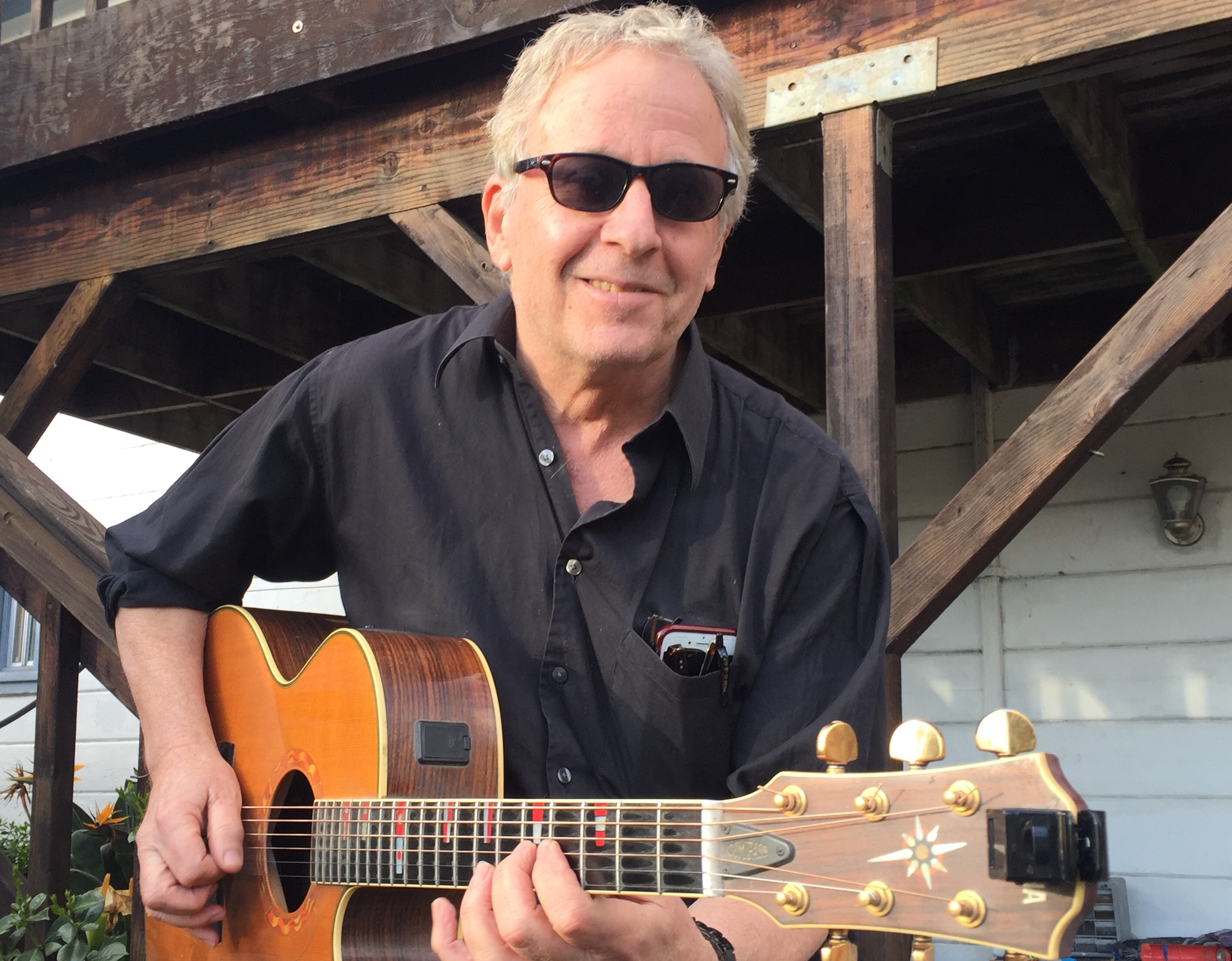 Barry Finnerty at home 4-16-2018